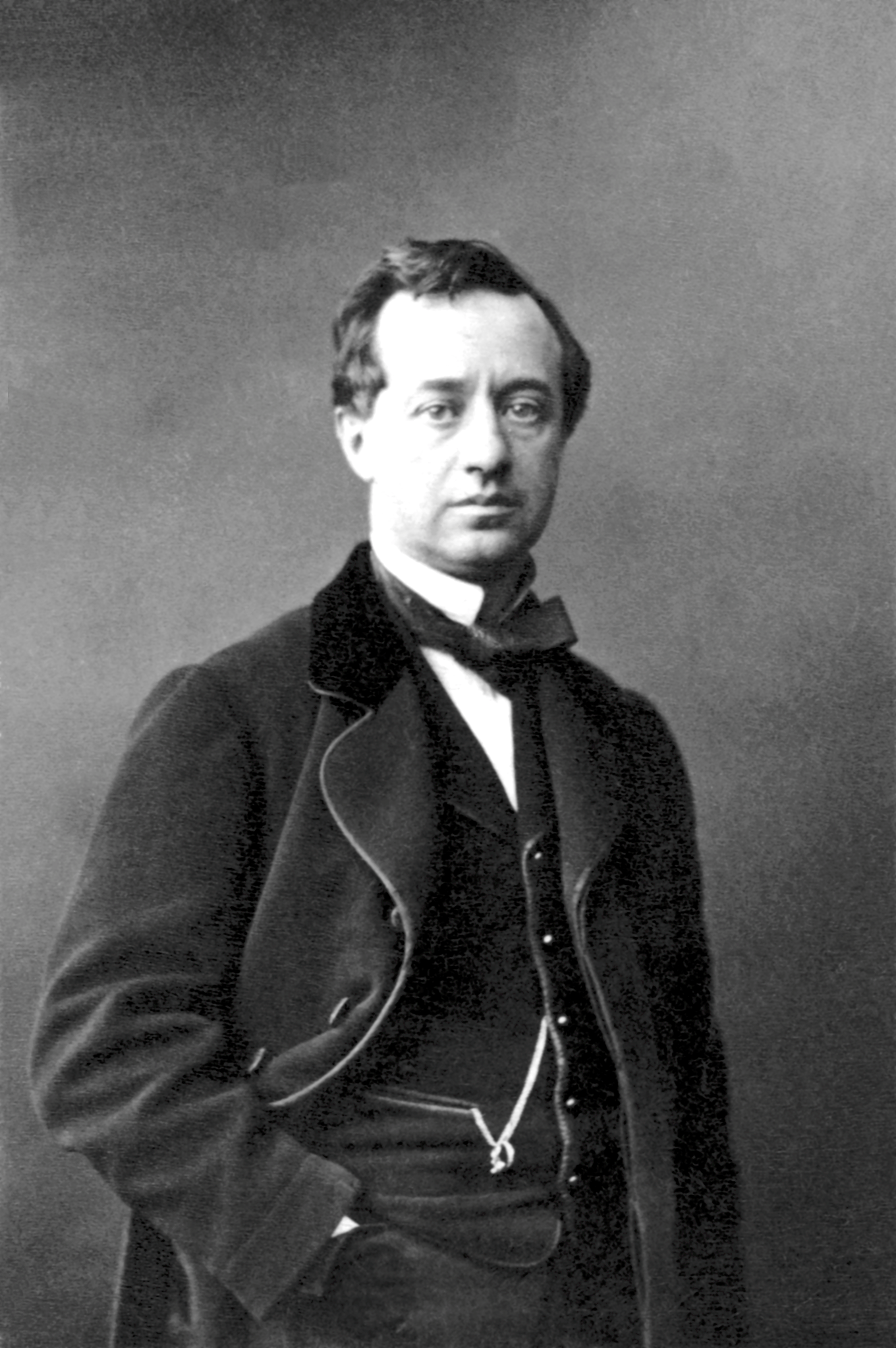 Edmond Got (1822–1901) French comedian and librettist.